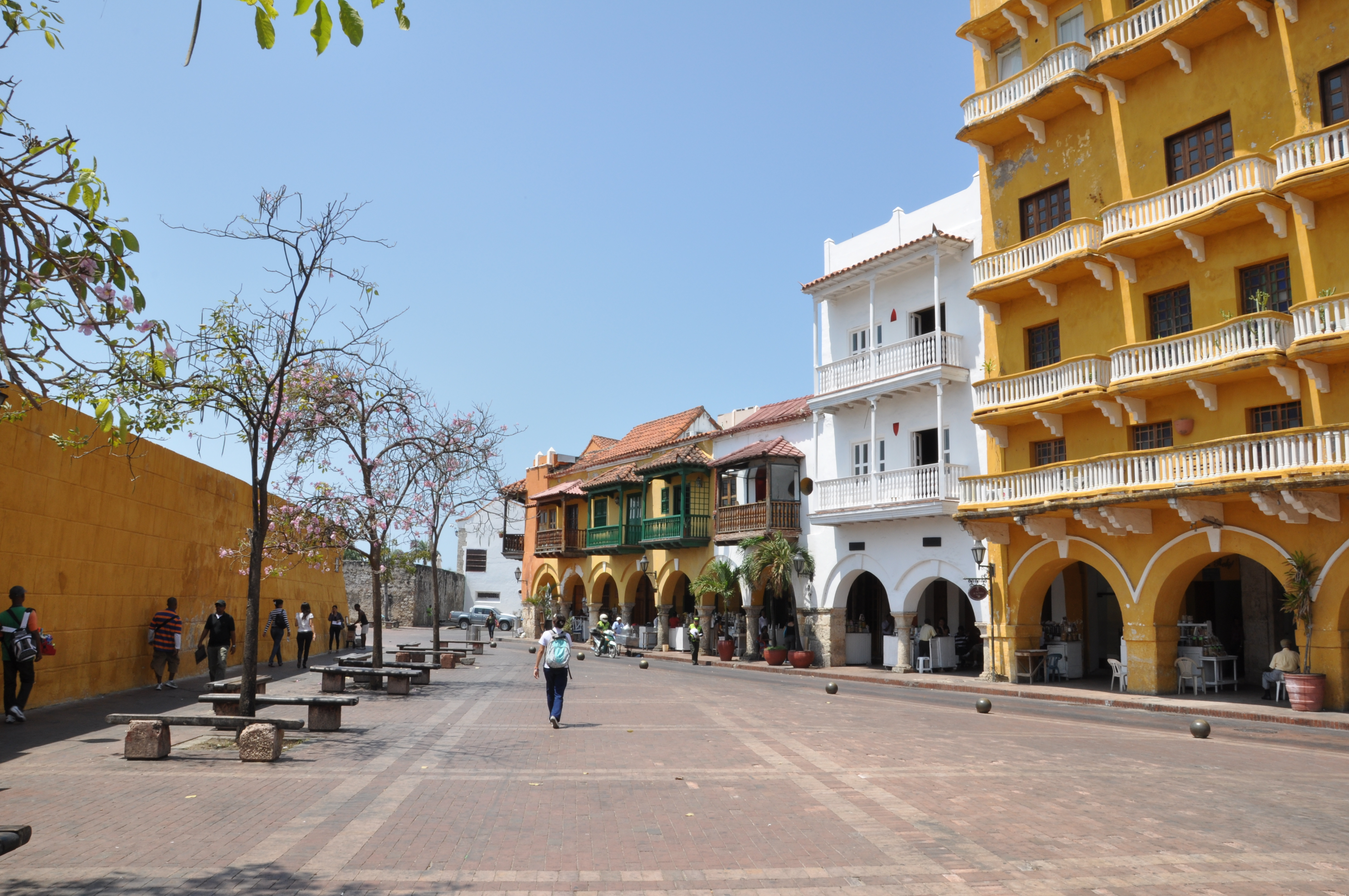 Plaza de los Coches, Cartagena, Colombia. ONE of the WORLD'S 5 MOST ROMANTIC PLACES ACCORDING to LONELY PLANET